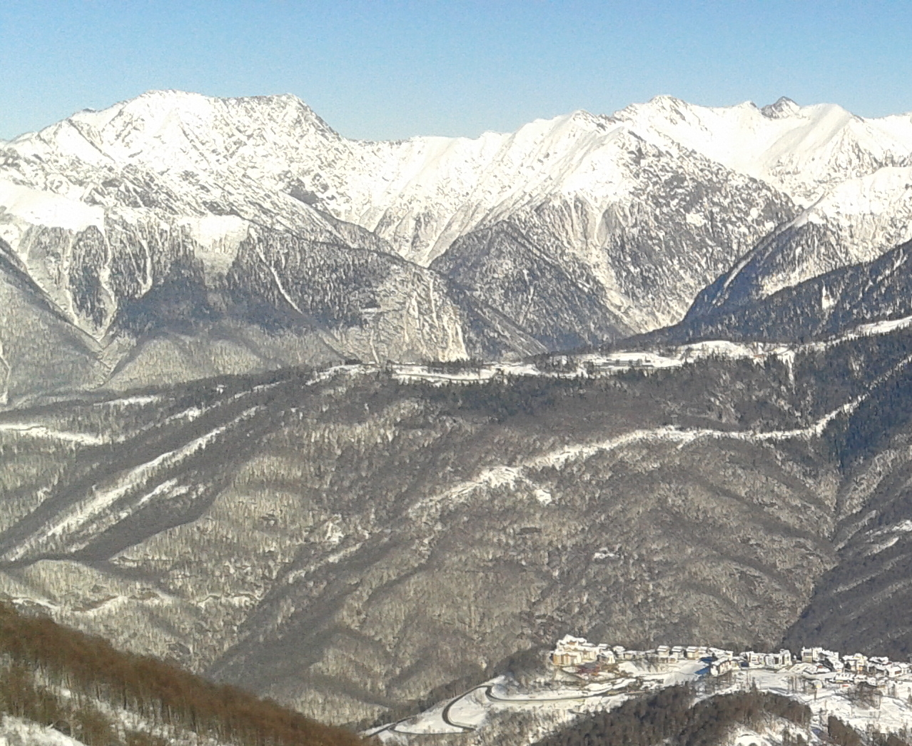 Part of the Krasnaya Polyana ski area, with the Laura Biathlon & Ski Complex on the plateau in the middle. Below right is the Rosa Khutor ski resort plateau.